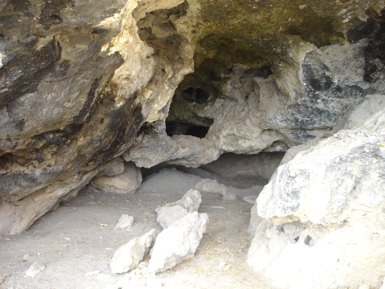 Melnička cave in Mariovo, Macedonia